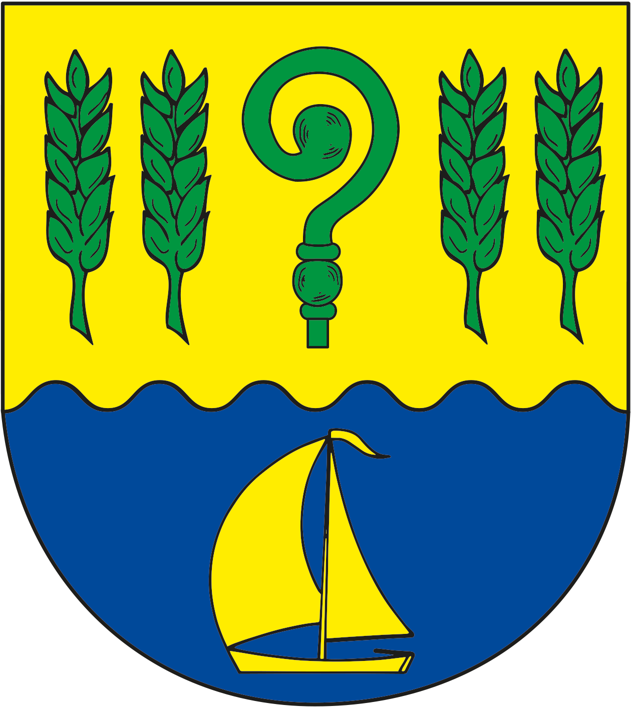 Coat of arms of the municipality Ulsnis, Schleswig-Holstein in Schleswig-Holstein, Germany.